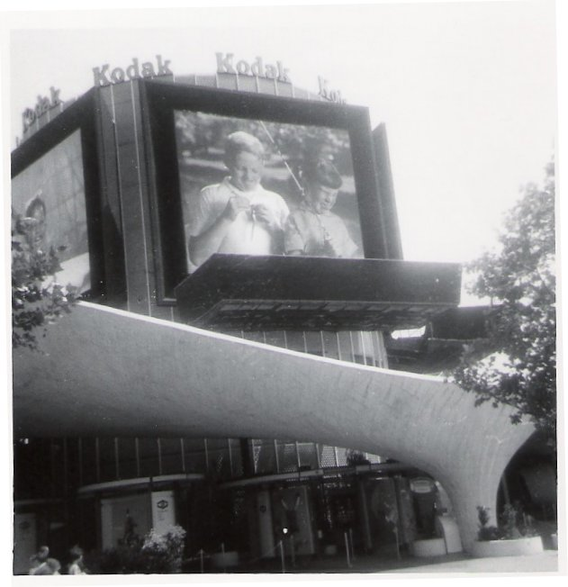 1964 New York World's Fair